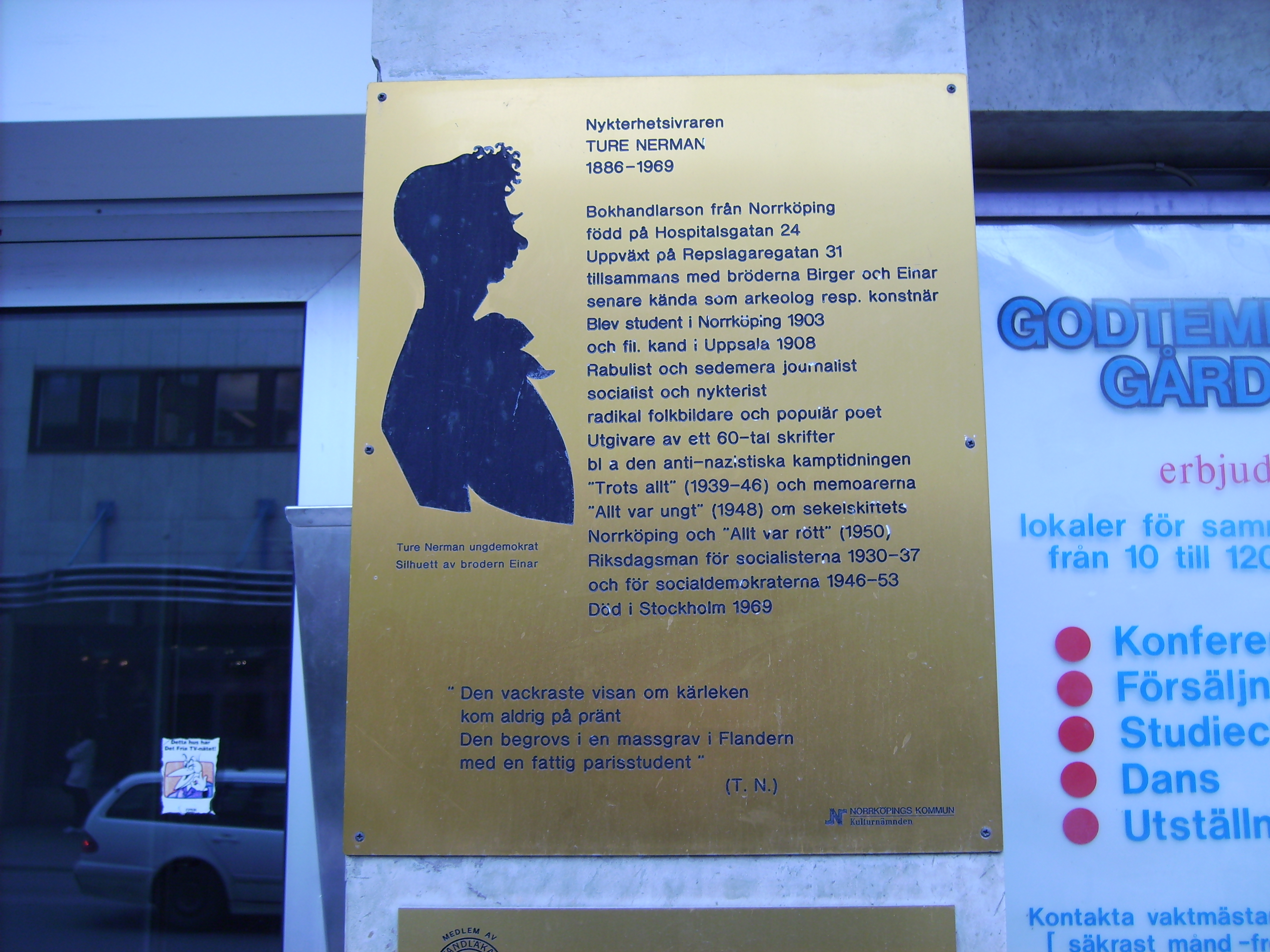 Photo by Harri Blomberg.